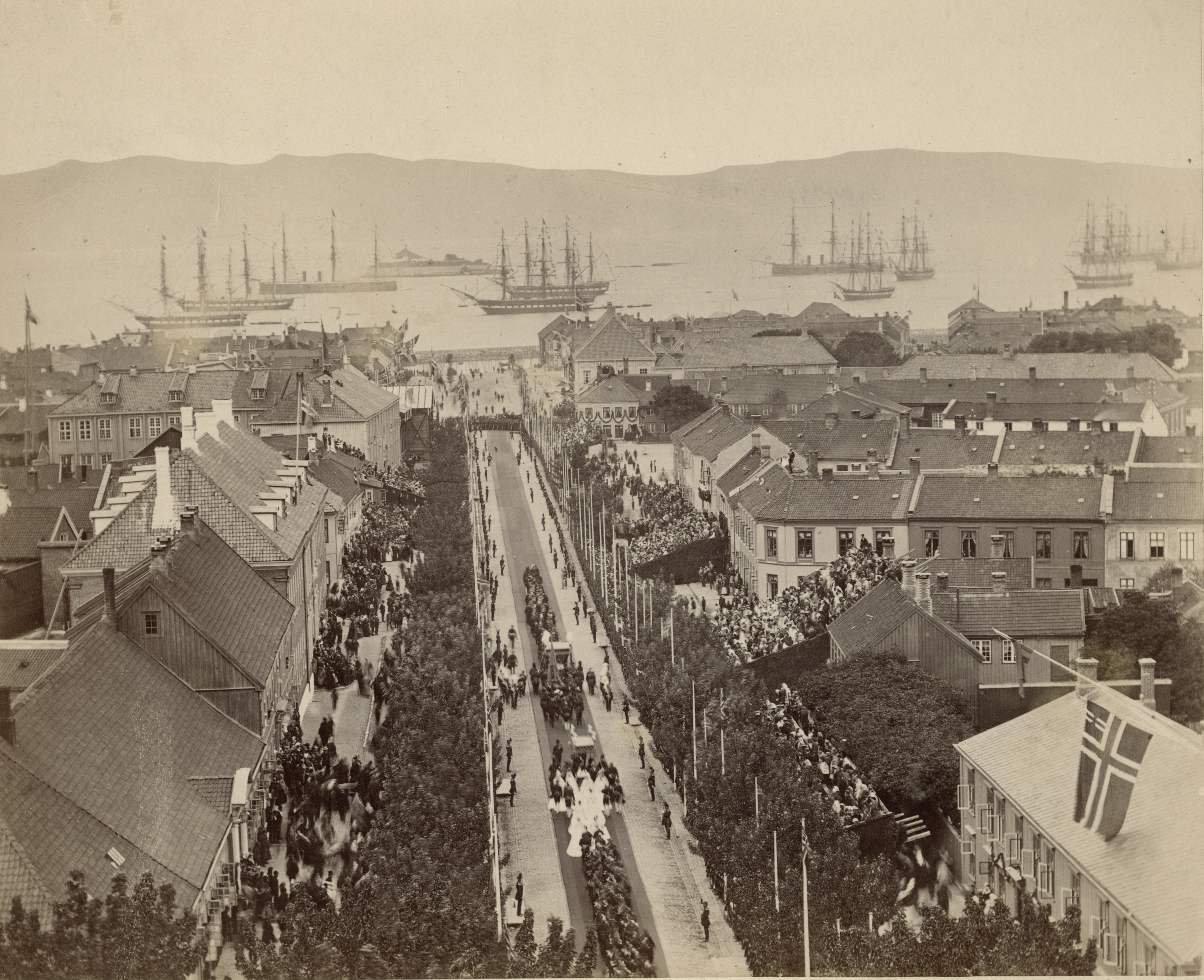 The crowning of Oscar II of Sweden in Trondheim July 18 1873 This image on crowdsourcing geotagging platform Fotodugnad